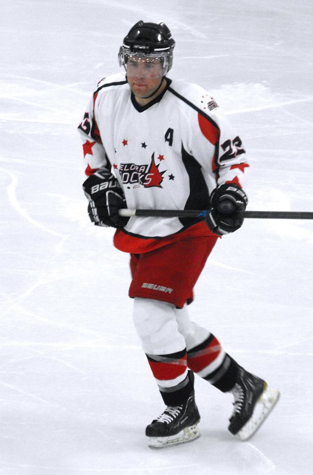 These images of WOAA action are taken by Devan Mighton.